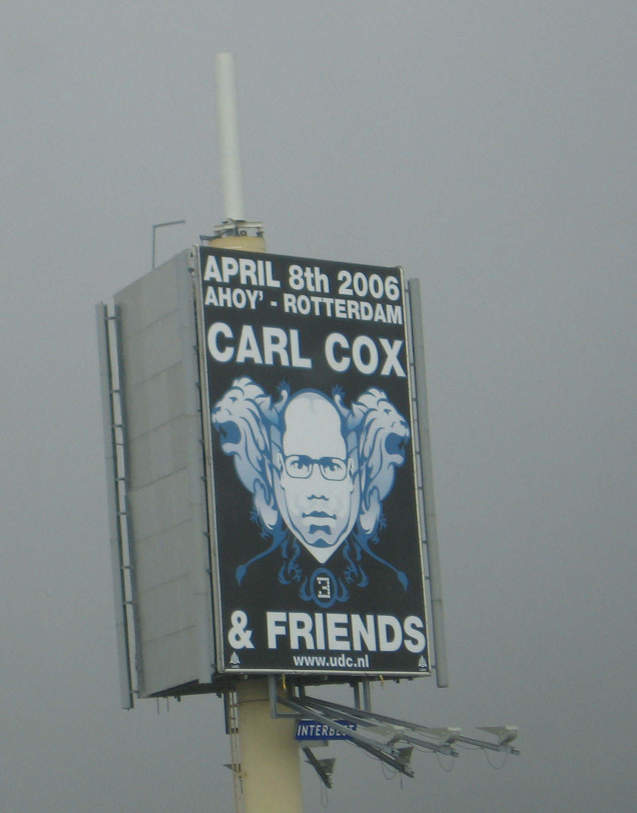 Carl Cox, concertaankondiging op bord langs A13